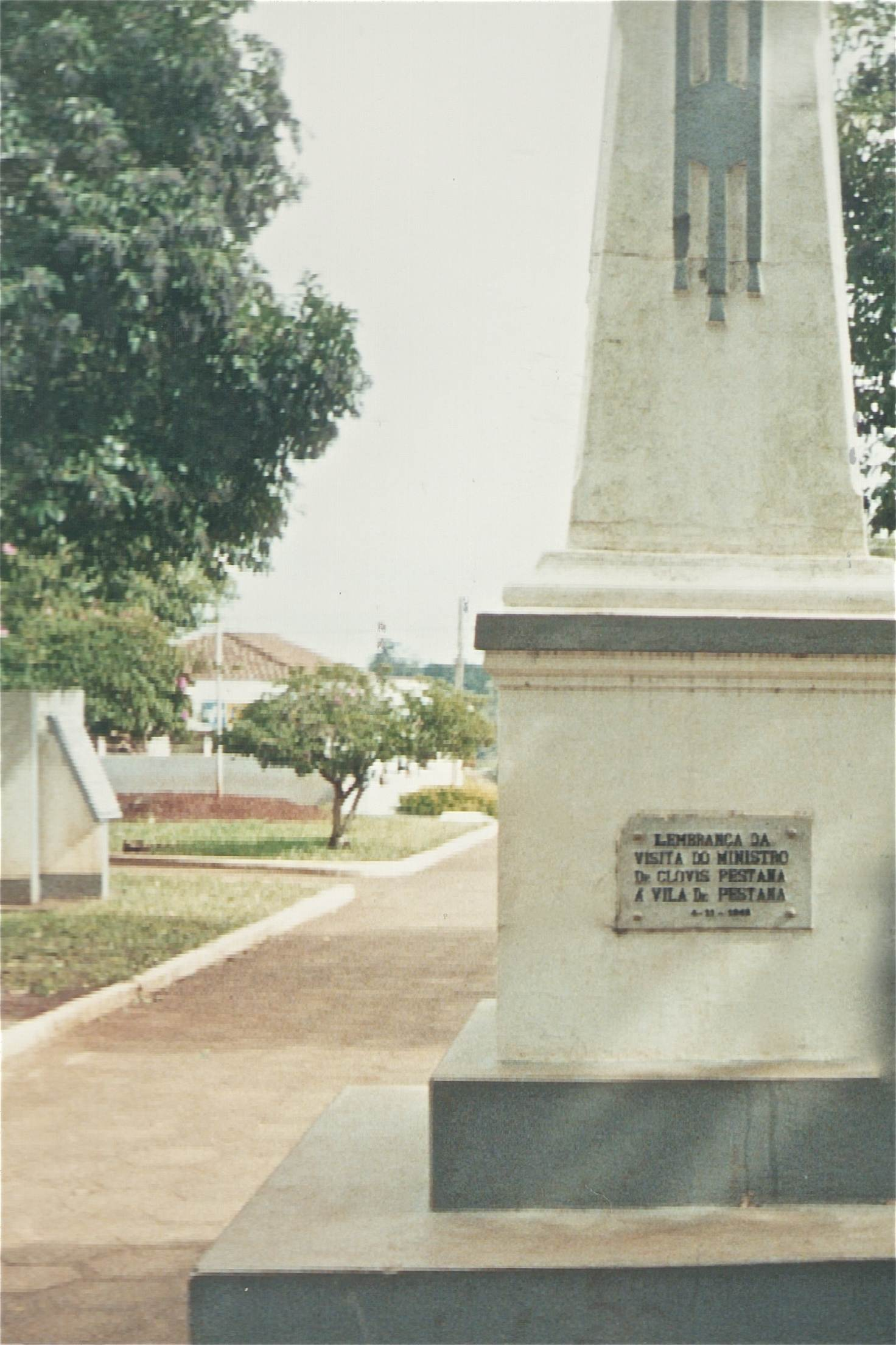 Obelisk at Farroupilha Square, Augusto Pestana (RS), Brazil.